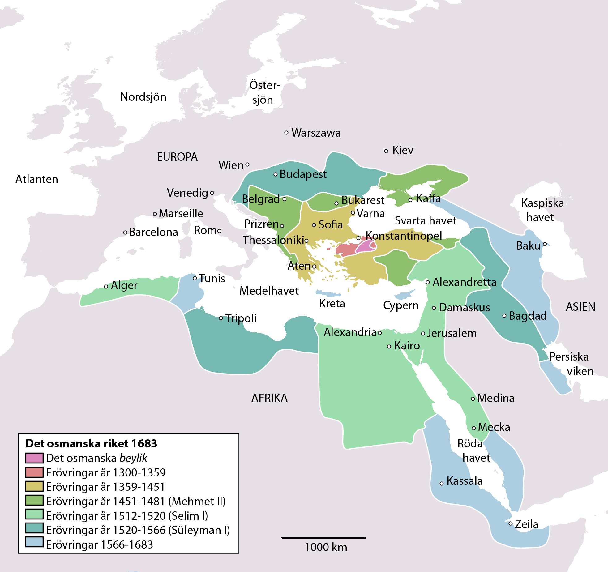 Swedish map over Ottoman Empire 1683.